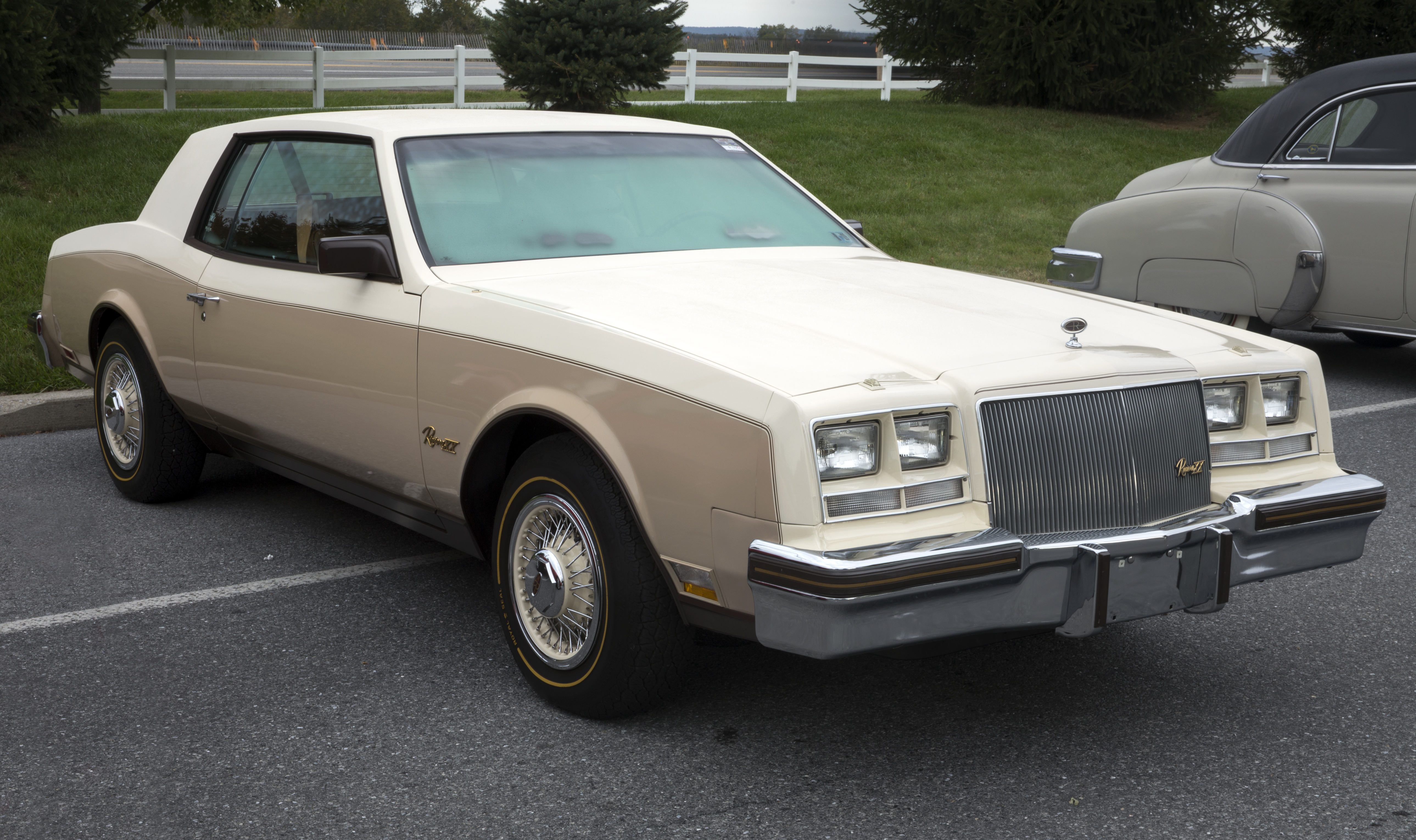 A 1983 Buick Riviera XX offered for sale at Hershey 2019. 502 of these were made.